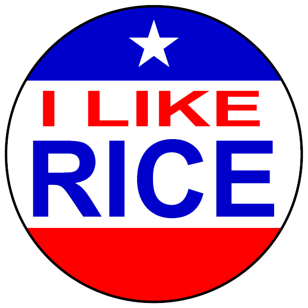 "Draft Condi" campaign button, loosely based on a graphic posted in a public forum at the URL: Redone from scratch to avoid copyright problems.